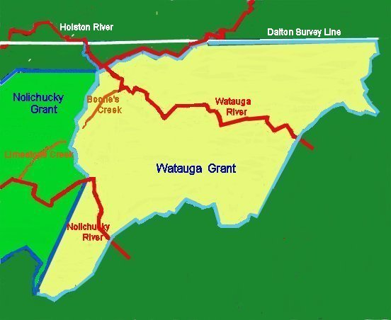 The yellow area describes the Charles Robertson Grant that was one of the five Watauga Treaty Grants of March 1775